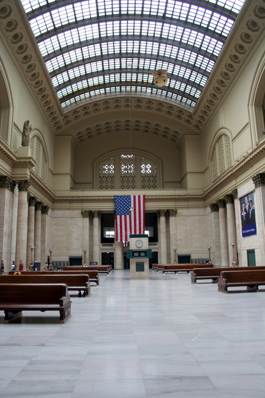 The main waiting hall at Chicago's Union Station